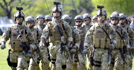 Soldiers from KOPASKA special forces of the Indonesian Navy